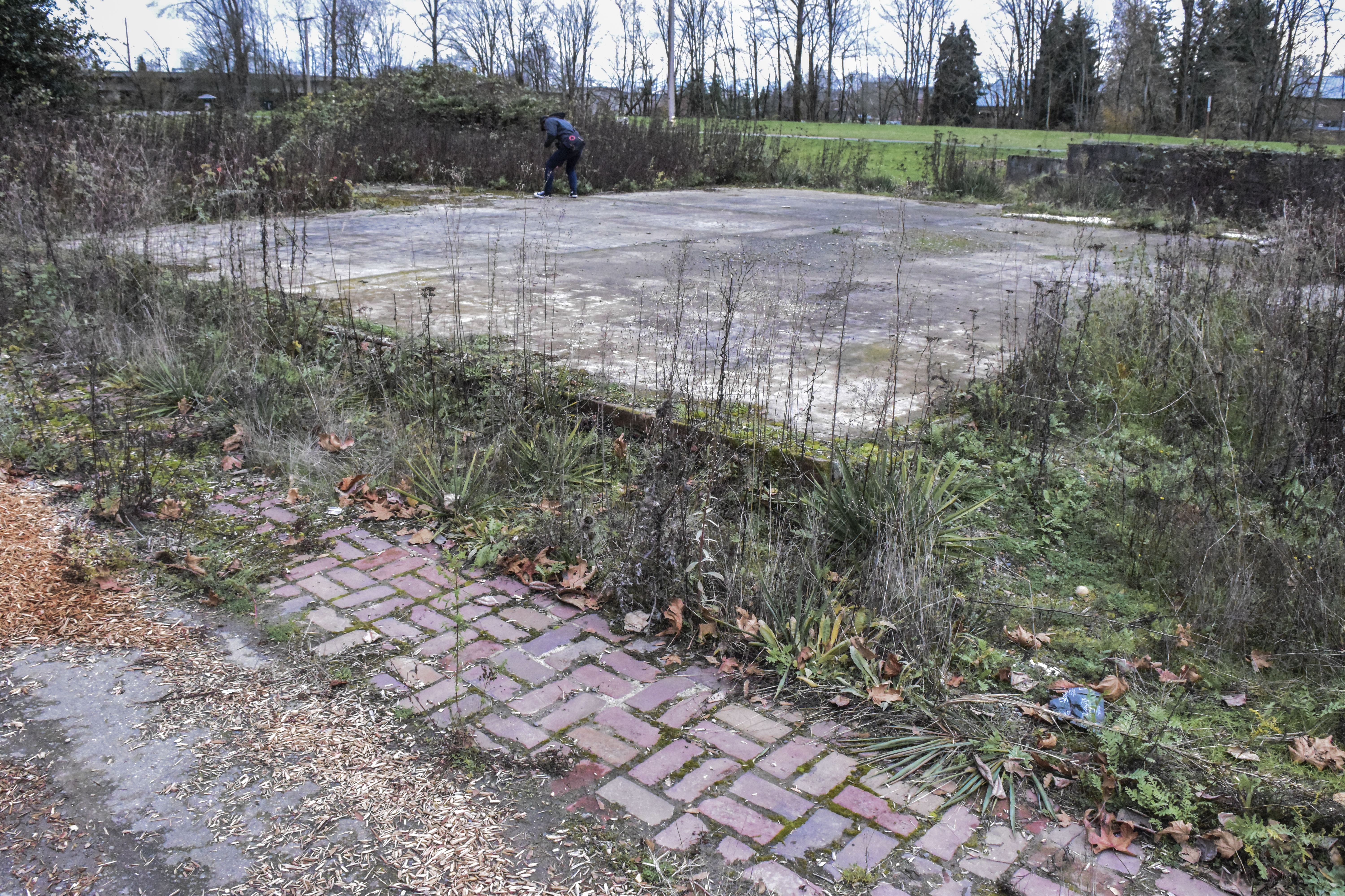 Foundations and other ruins of the former Renton Brick Works (Denny-Renton Clay and Coal Company). Small portions of Interstate 405 and the Cedar River Trail can be seen behind.